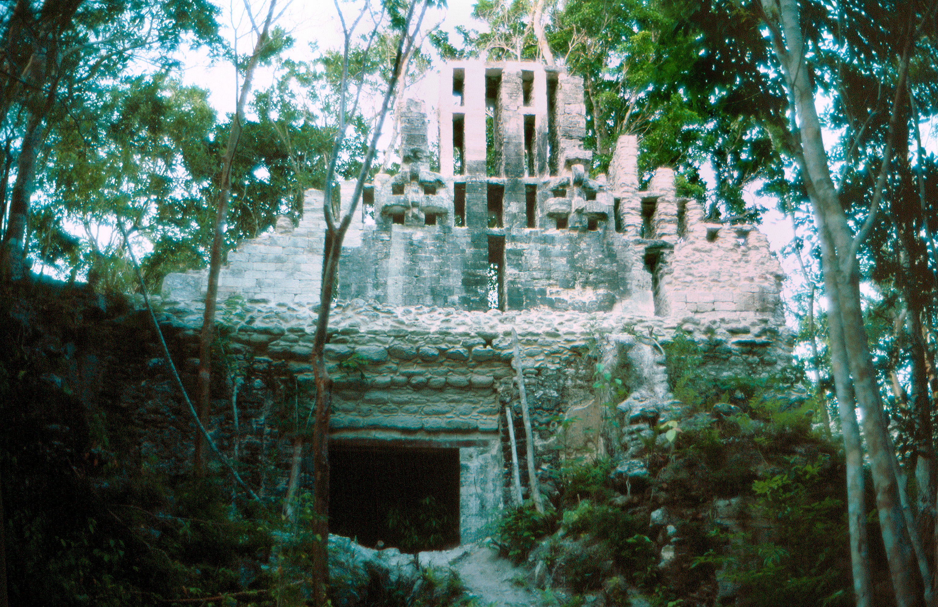 Xpujil II, palace, south facade ("birds mask temple"